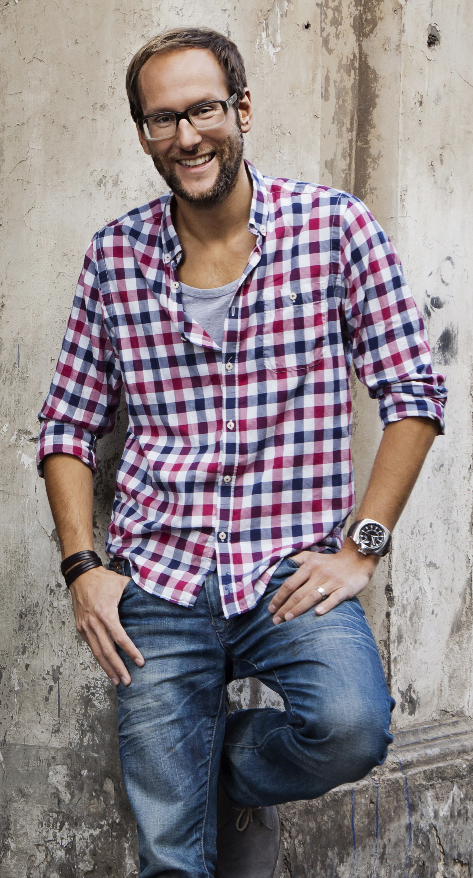 Simon Beeck